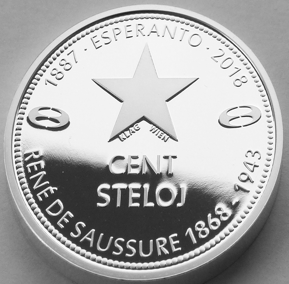 Esperanto coin 100 Steloj arĝento Averso 2018 Stelo Silber silver